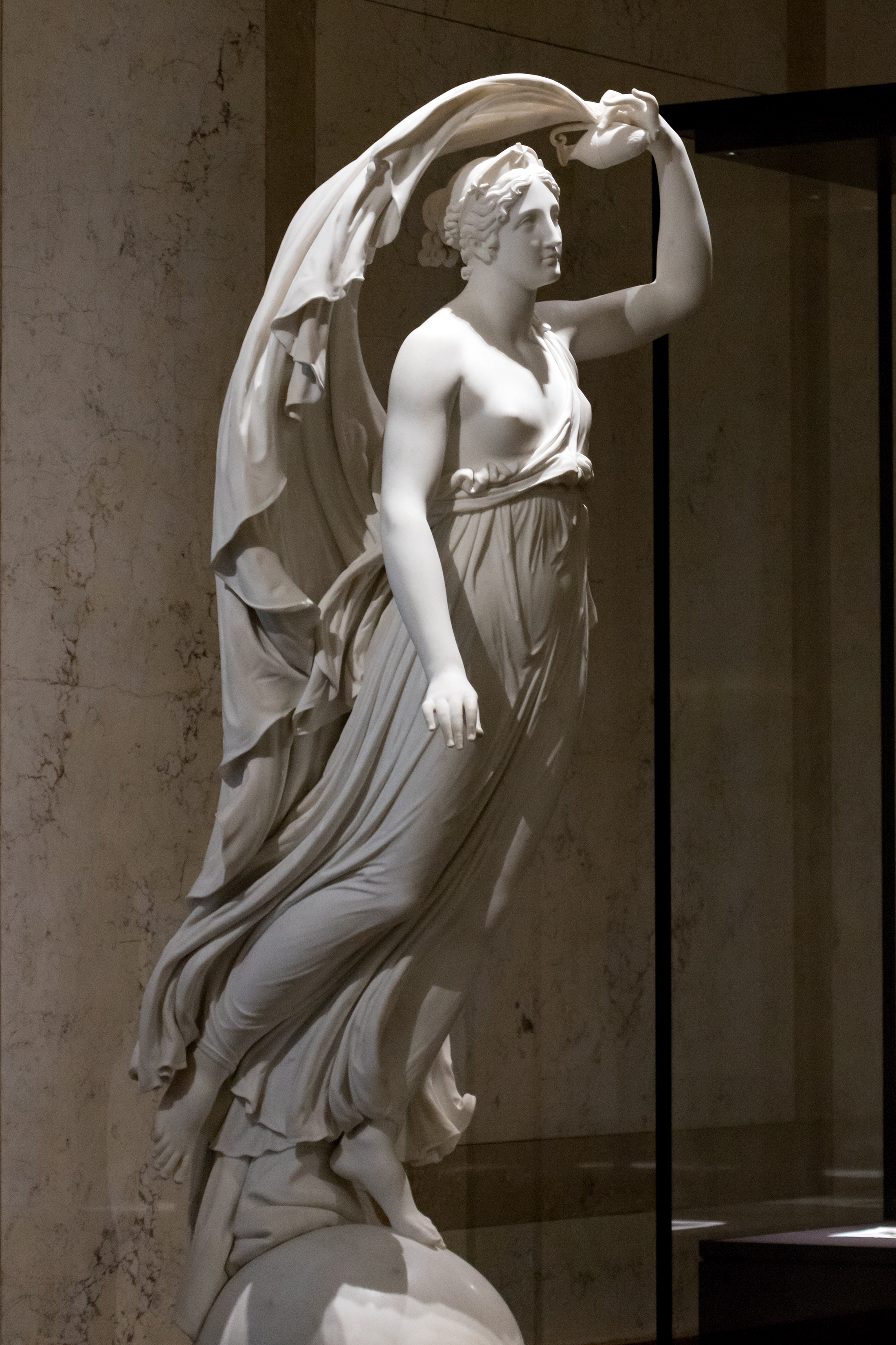 Gaetano Matteo Monti: Iris as goddess of the rainbow (1841, marble) at Kunsthistorisches Museum in Vienna, Austria.